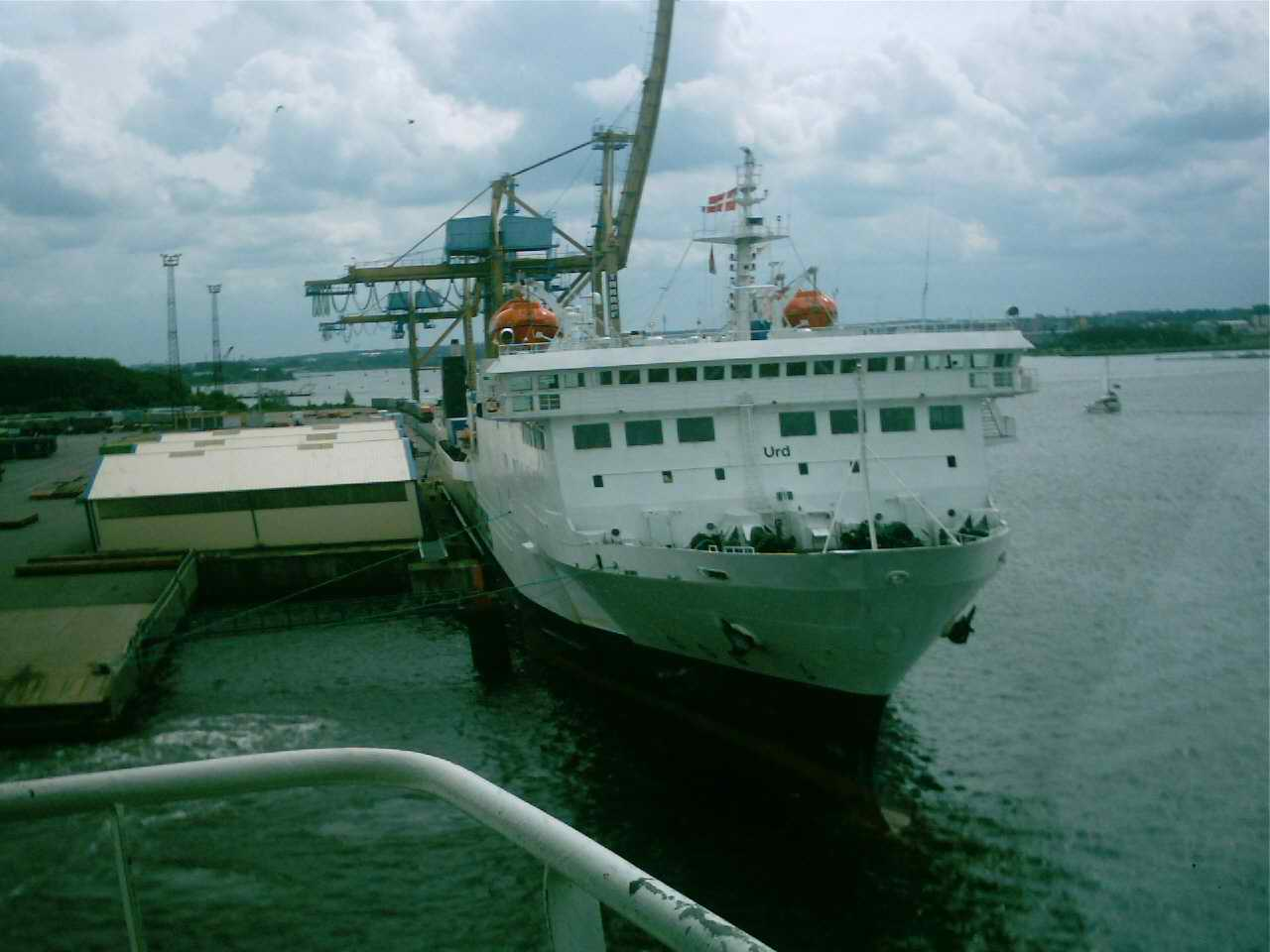 Urd at Quay 62 in Seehafen Rostock 14 June 2003